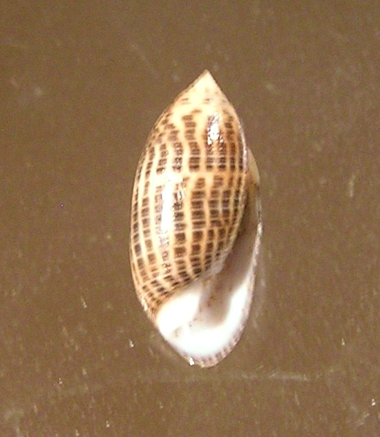 Pupa fumata Gould, 1859, a mollusc in the family Acteonidae